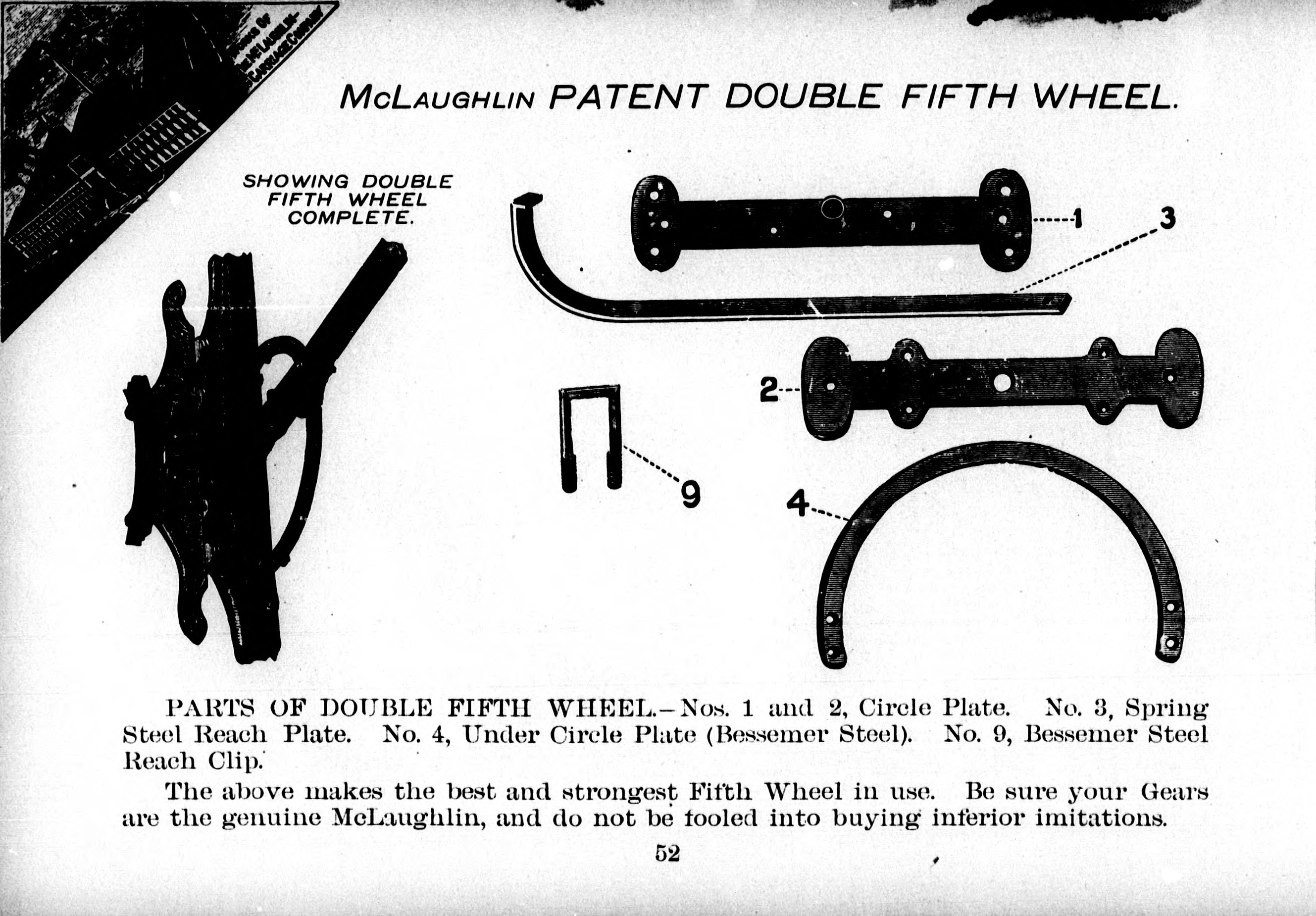 Double fifth-wheel — McLaughlin patented McLaughlin Carriage Co Catalogue 1896